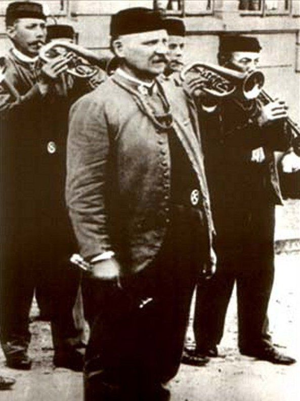 František Kmoch and his band